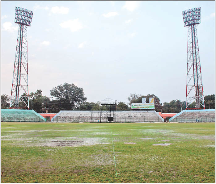 Captain Roop Singh Stadium Gwalior MP INDIA